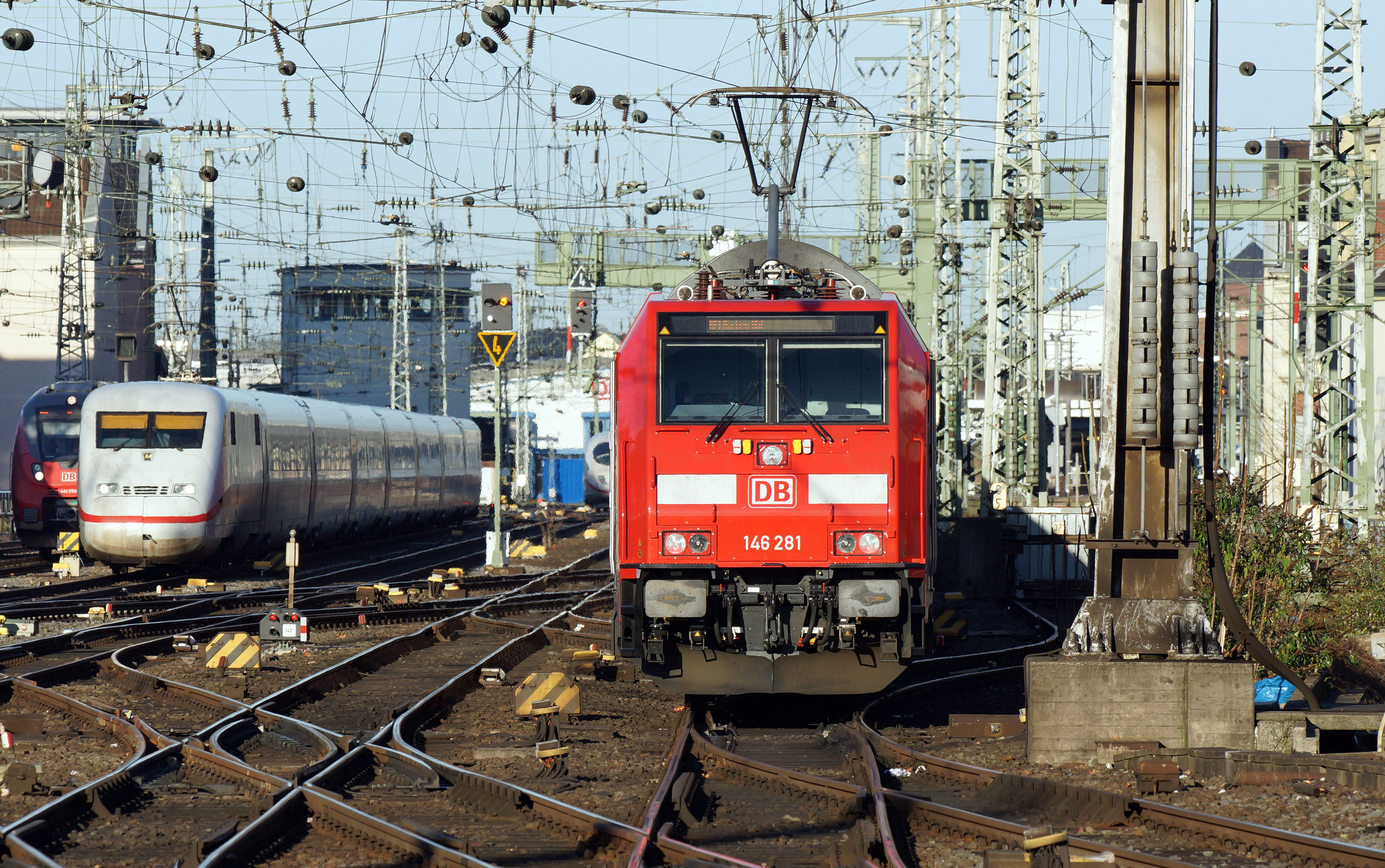 DBAG 146 281 in the near of Cologne main station.